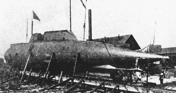 On a slipway circa the late 1890s, possibly while under construction at the Columbian Iron Works, Baltimore, Maryland. Plunger was built under an 1895 Navy contract with the Holland Torpedo Boat Company but was not accepted for Naval service. Note her triple propeller shafts. This halftone reproduction was published in the "Journal of the American Society of Naval Engineers", May 1938.